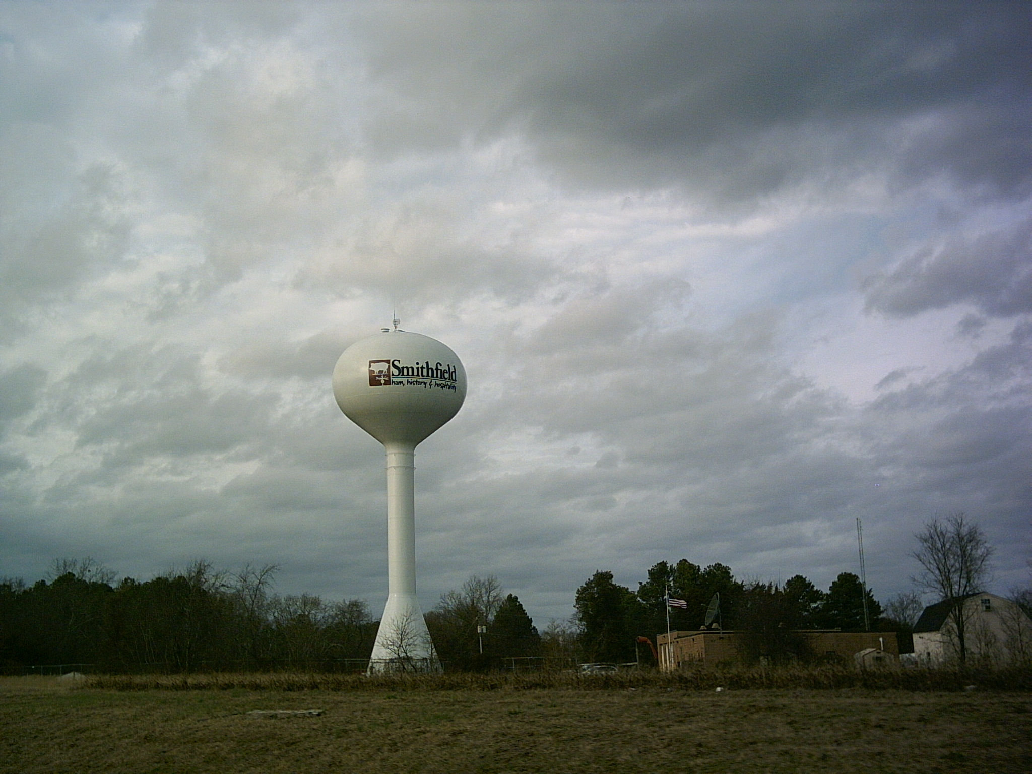 Image taken by me for Wikipedia